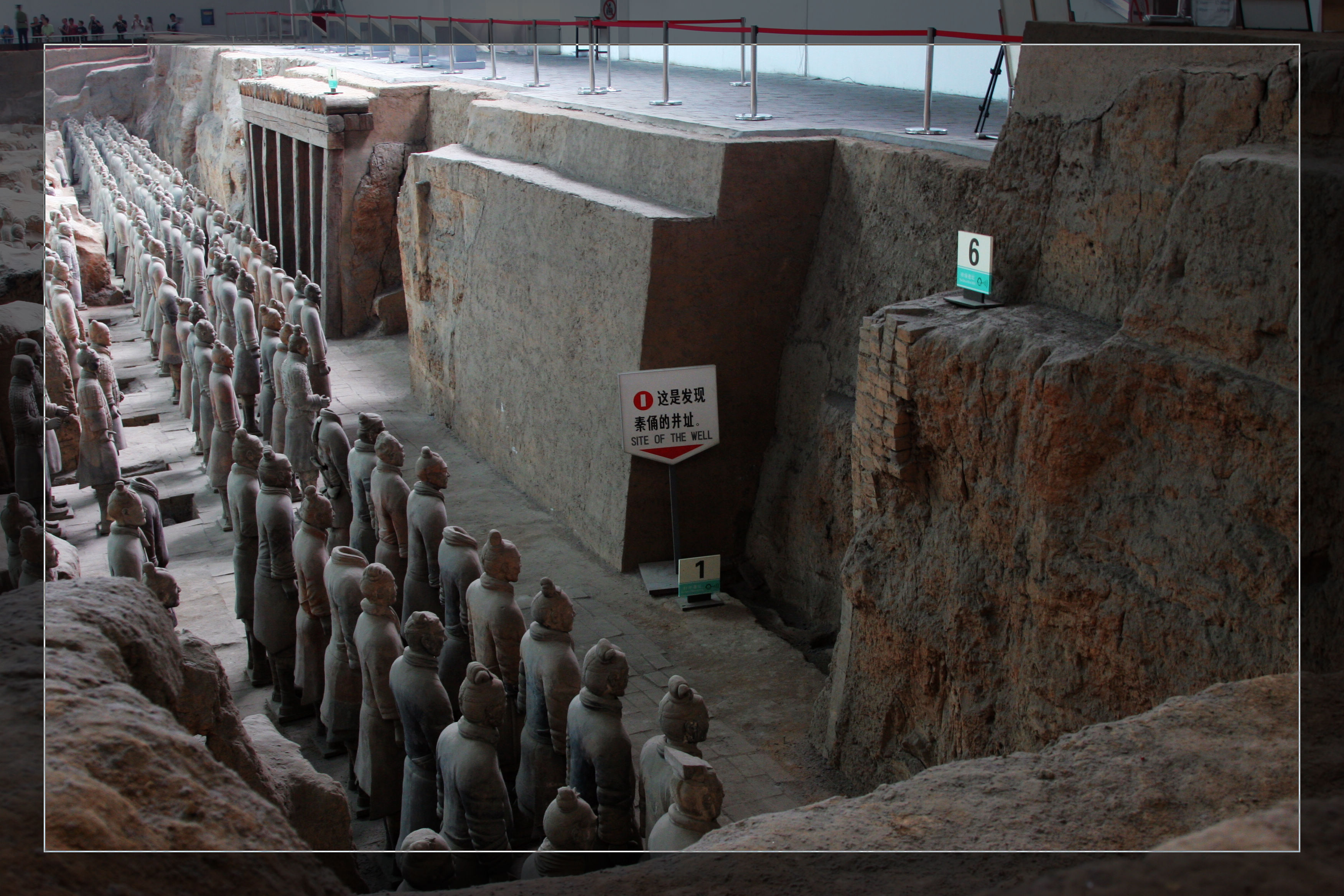 Terracotta Army